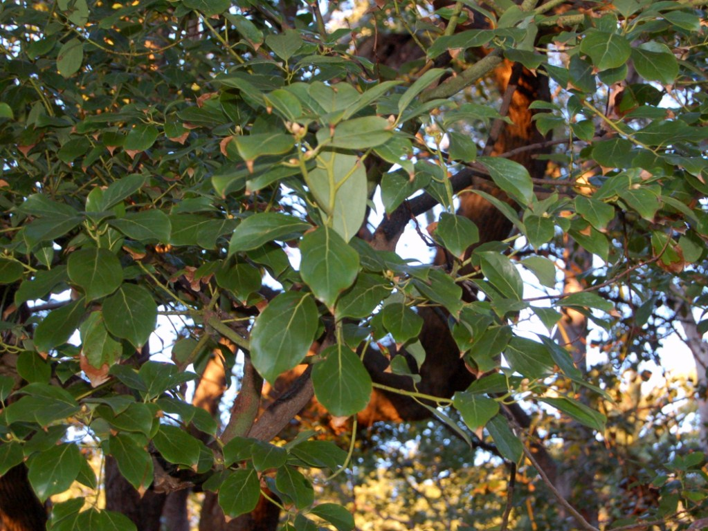 Cinnamomum glanduliferum - Genova Nervi, Italy